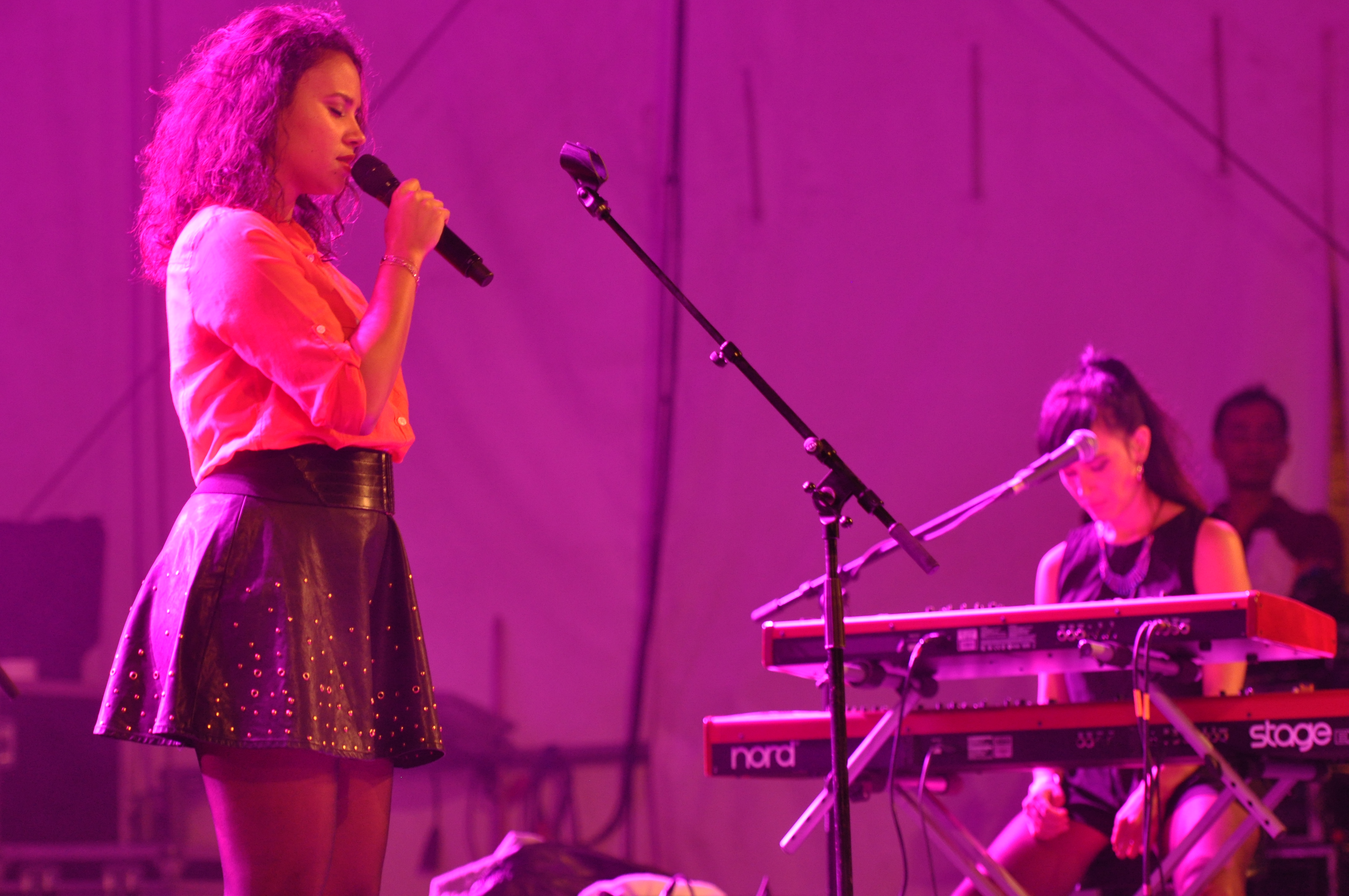 Mayra Andrade (CV), appearance at the 12th World Music Festival "Horizonte" 2014 at the fortress of Ehrenbreitstein, Koblenz (Germany)